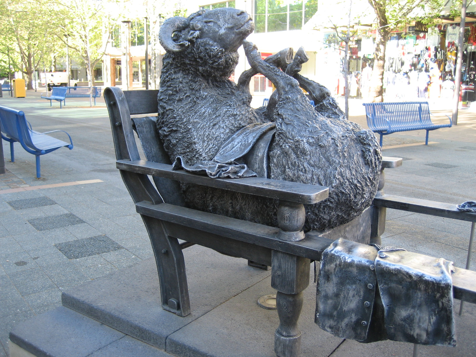 "Ainslie's Sheep", by Les Kossatz. A sheep's statue in central part of Canberra